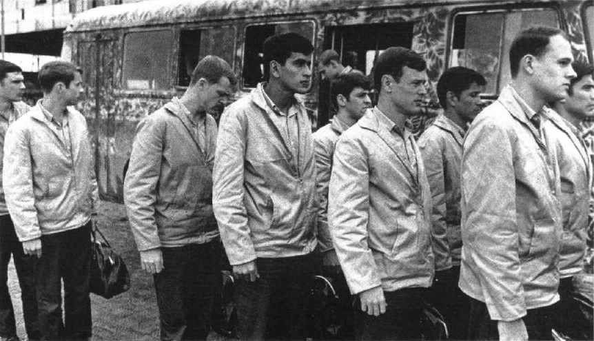 Prisoners lined up for release on 27 March 1973 at the airport. Marines pictured among the 27 returnees freed that day were Sgt Jose J. Anzaldua, fourth from the left, and Sgt Dennis A. Tellier, second from the right. The bus was camouflaged as a defense against air attack.